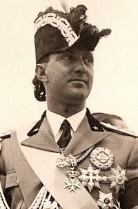 Crown Prince Umberto II of Italy in 1923. The original picture, scanned by Emiliano Burzagli, belongs to the Private archive of Burzagli family, Italy.